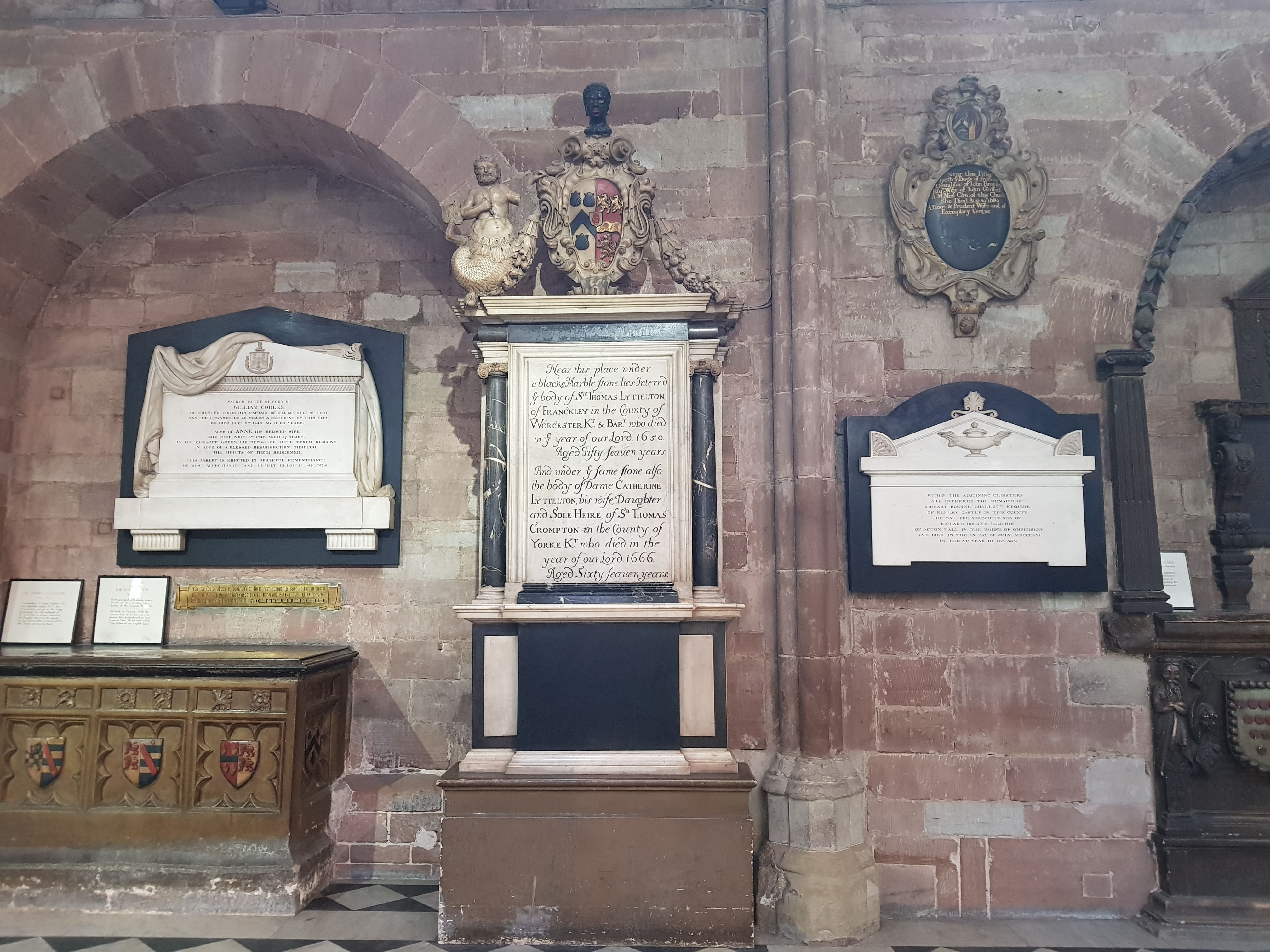 Worcester Cathedral, 11 Feb 2019. Sir Thomas Lyttelton, 1st Baronet (1593 – 22 February 1650) was an English Royalist officer and politician from the Lyttelton family during the English Civil War.